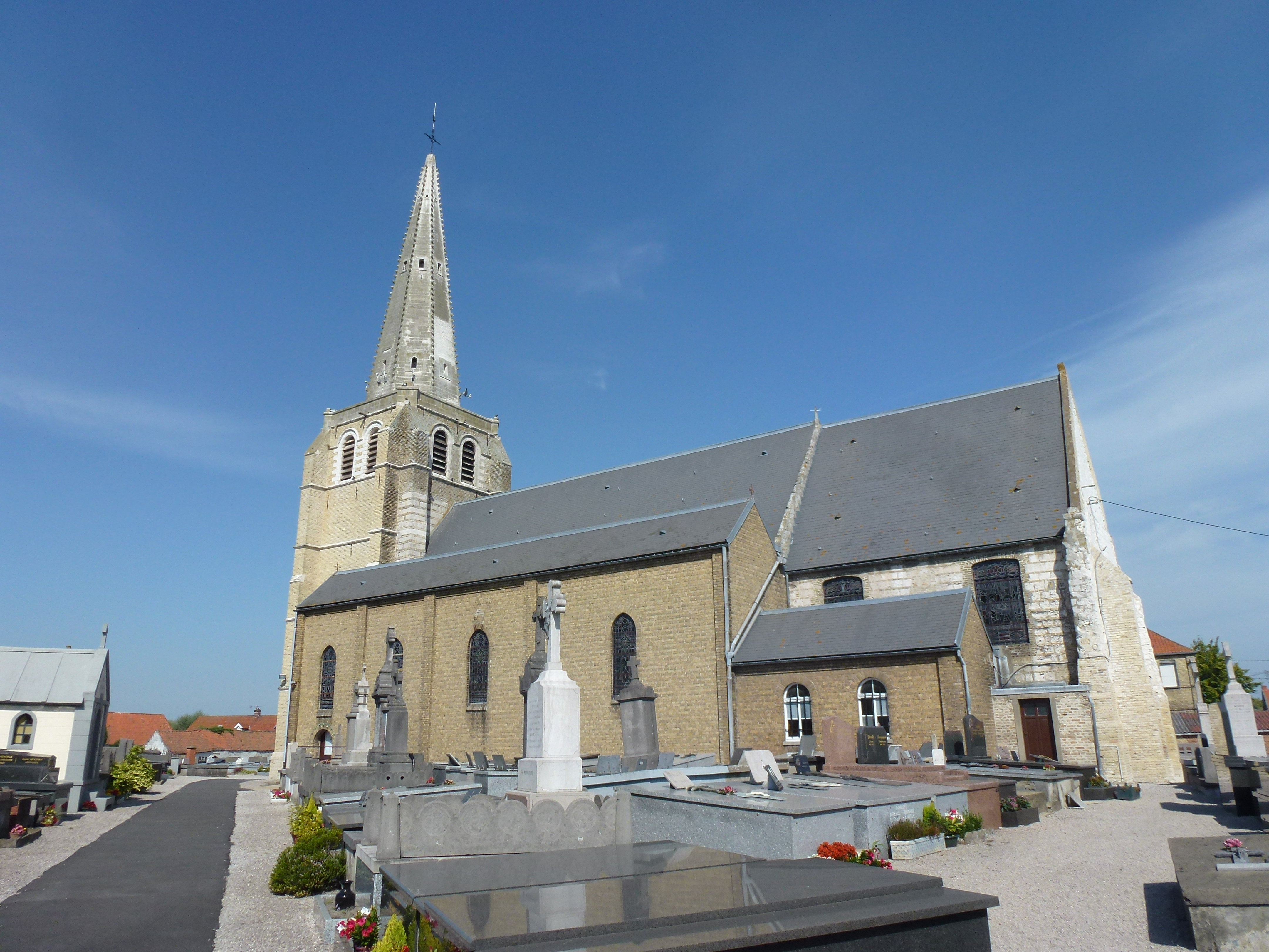 Sainte-Marie-Kerque (Pas-de-Calais) église Notre Dame